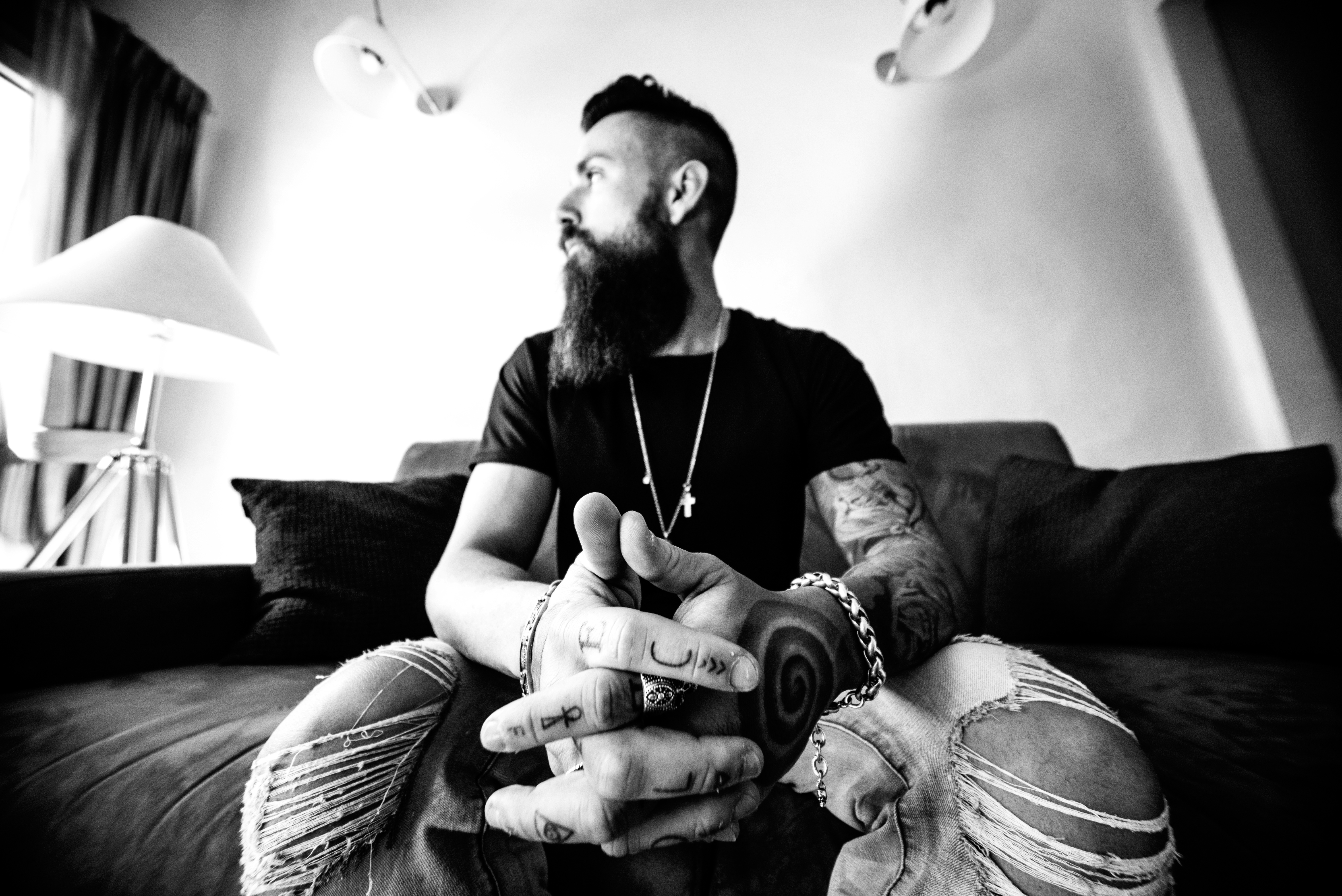 Enrico Carcasci 2017-05-15